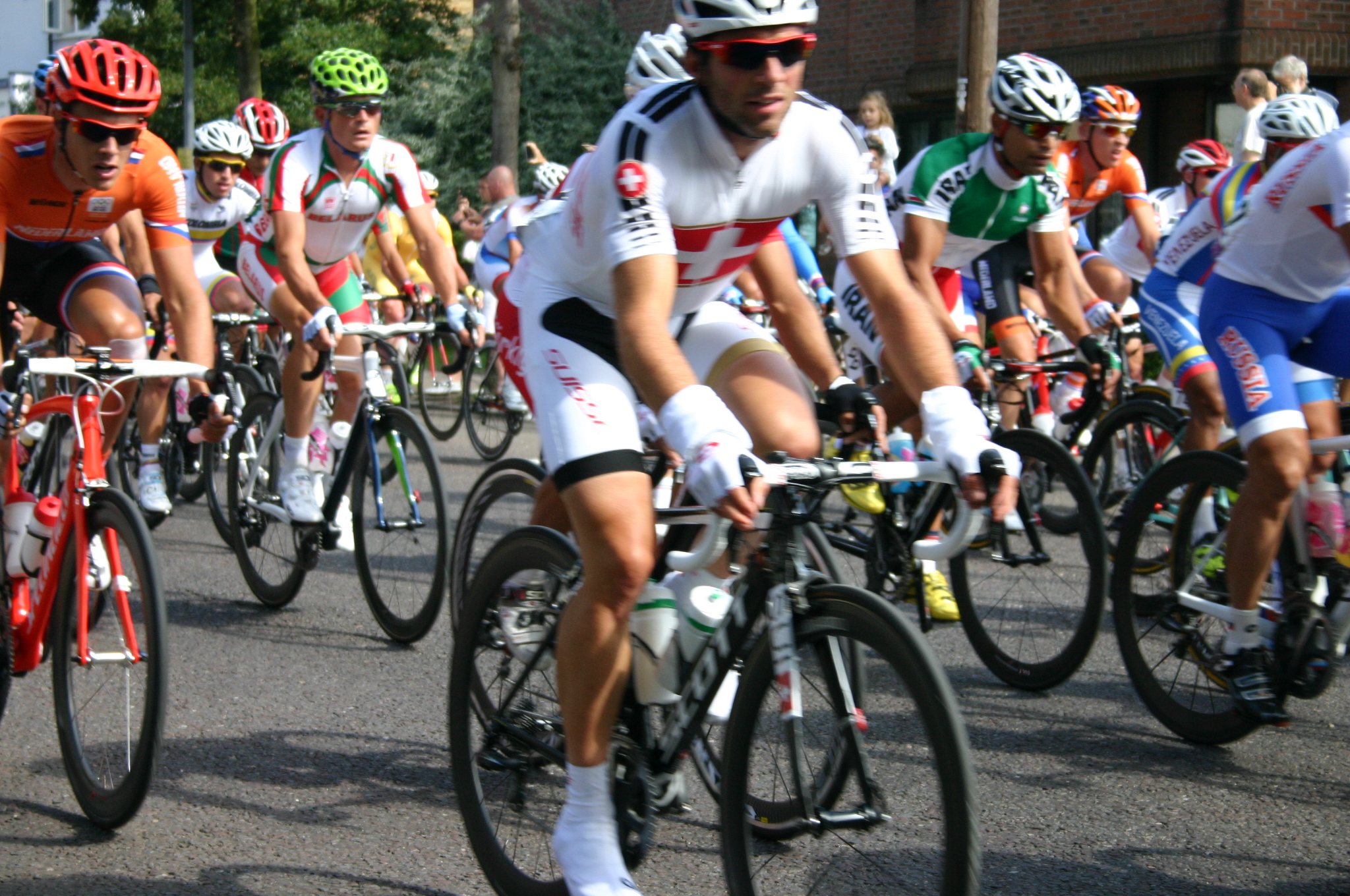 men's race in Waldegrave rd Teddington